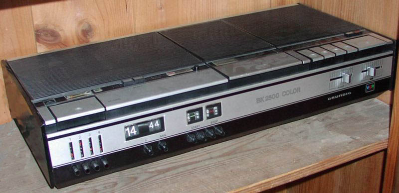 Grundig BK2500 / BK-2500 Color Video Cassette Recorder (VCR)